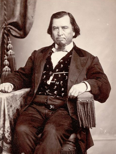 Sampson Folsom, American Indian (Choctaw), 1820-1872. Folsom is in Washington, D.C. He was probably part of a delegation from the Choctaw Nation--taking care of post-Civil War activities. Image taken sometime in 1868.